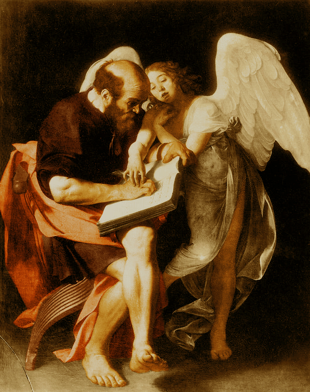 A self-produced, colourised version of this destroyed, no longer existing work, as only black and white photographs previously existed as reference.